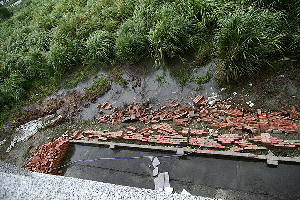 Damage from Typhoon Jangmi in Taiwan in September 2008